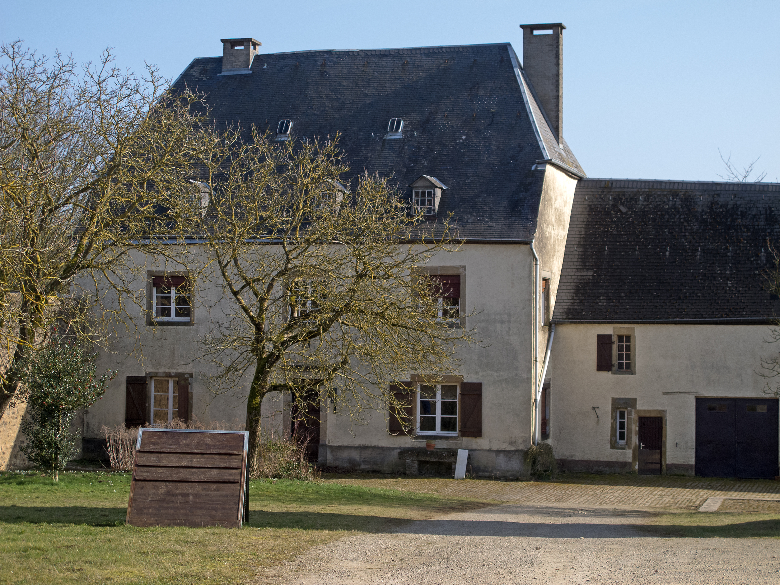 The residential house of the Birelerhaff